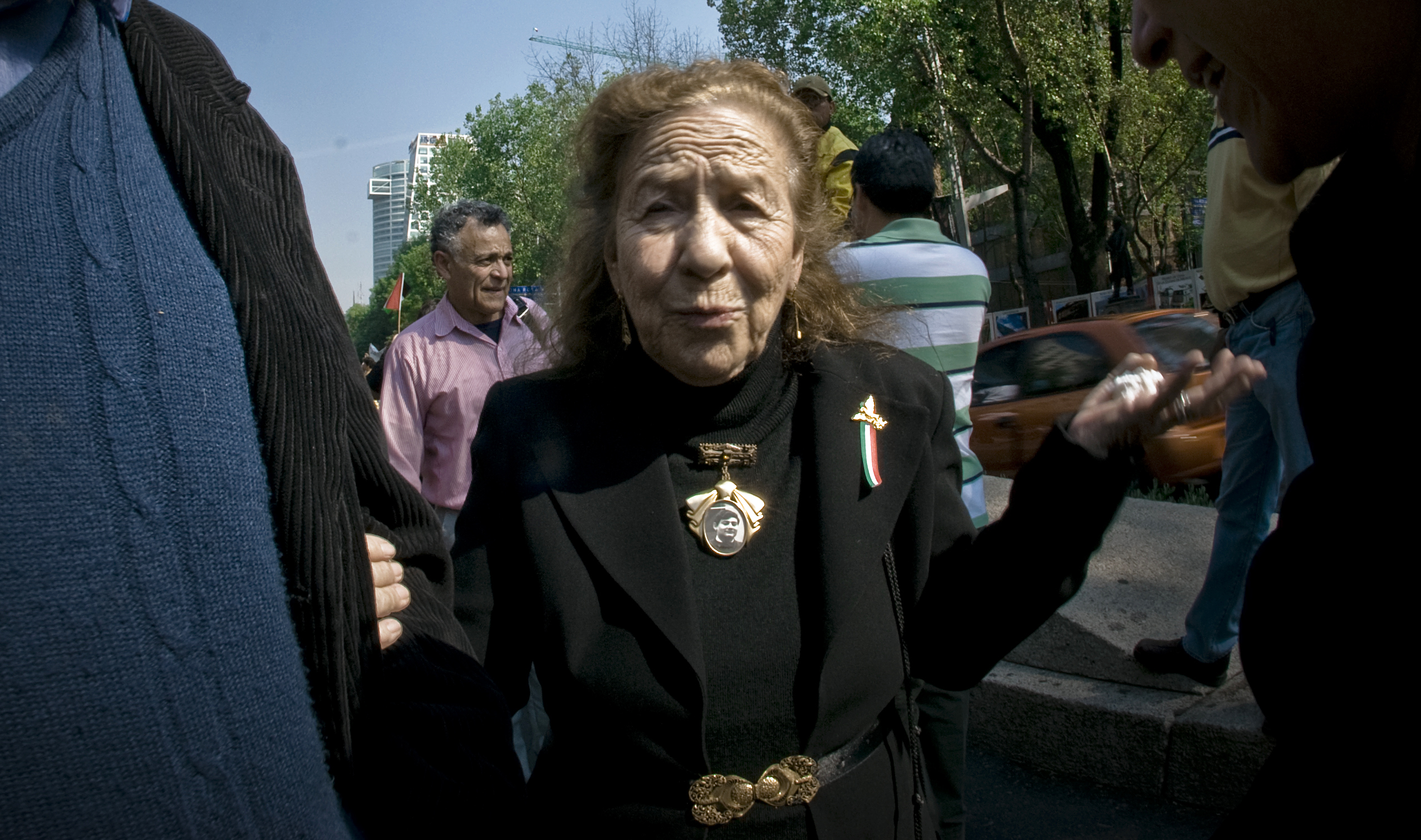 Rosario Ybarra de la Garza, a senator of the Mexican Labor Party, protesting against a massacre in Palestine.